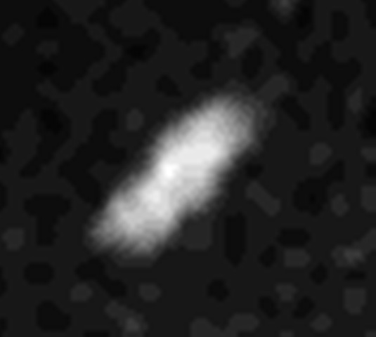 Naiad as seen by Voyager 2. The image is smeared due to the combination of long exposure needed at this distance from the Sun, and the rapid relative motion of the moon and Voyager. Hence, the moon appears more elongated than in reality. Subsequently the brightness was processed and the image cropped somewhat